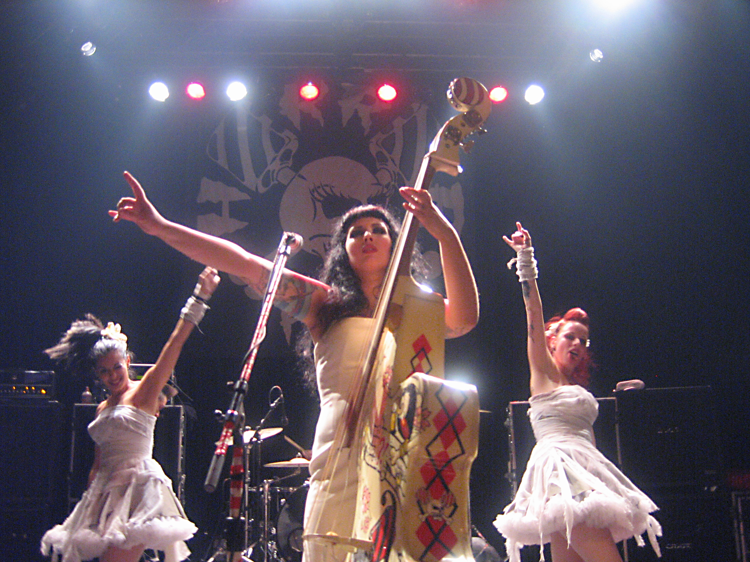 HorrorPops live in Montreal, 2006